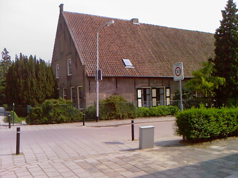 Monumental 18th century farm in Puttershoek, the Netherlands